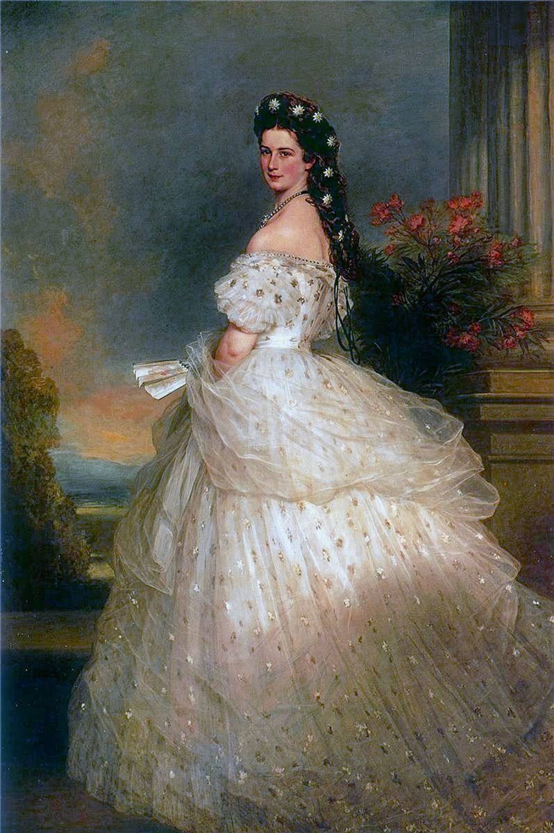 Portret van Elisabeth, Keizerin van Oostenrijk en Koningin van Hongarije door Franz Xaver Winterhalter